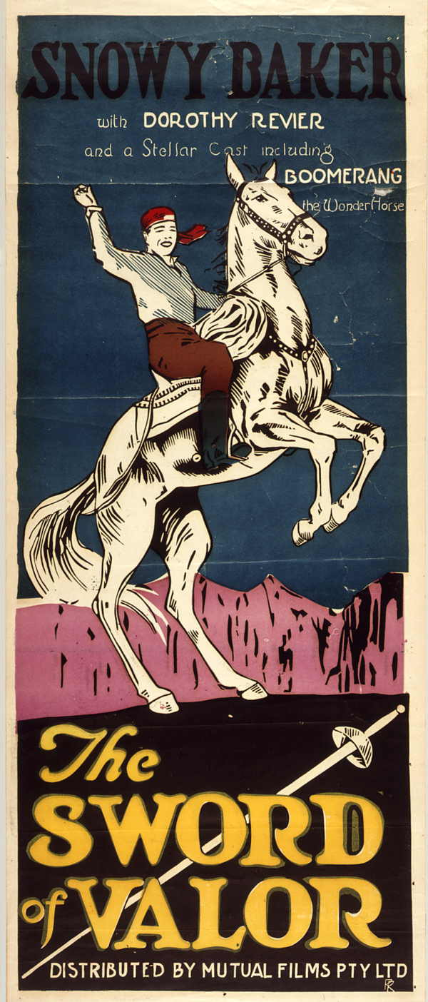 A film poster for The Sword of Valor, a 1924 motion picture.